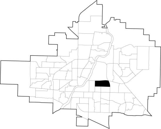 A map showing the boundaries of the University of Saskatchewan Lands South Management Area, in Saskatoon, Saskatchewan, Canada